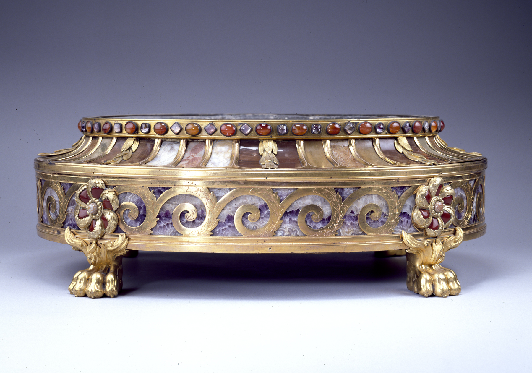 The tradition of mounting specimen stones can be traced to 16th-century Florentine "pietra dura" work. In the late 1700s, techniques for slicing and polishing stones were perfected, allowing lapidaries, most notably the Dresden goldsmith Johann Christian Neuber (1736-1808), to produce masterpieces in which concentric, radiating patterns of specimen hardstones were set in lids of snuffboxes and circular tabletops. In this work, the skeleton of the container is in gilded bronze with Roman motifs including scroll patterns, "paterae" (saucer-shaped appliqués), and paw feet. The body is lined with sheets of pink amethyst with traces of fluorite, and the rim is decorated with alternating carnelians and foil-backed amethysts. Set in the frame are sheets of dark brown agate, light brown spotted petrified wood, tan agate, pink agate, and white marble. The "paterae" have centers of banded agate and borders of jasper.